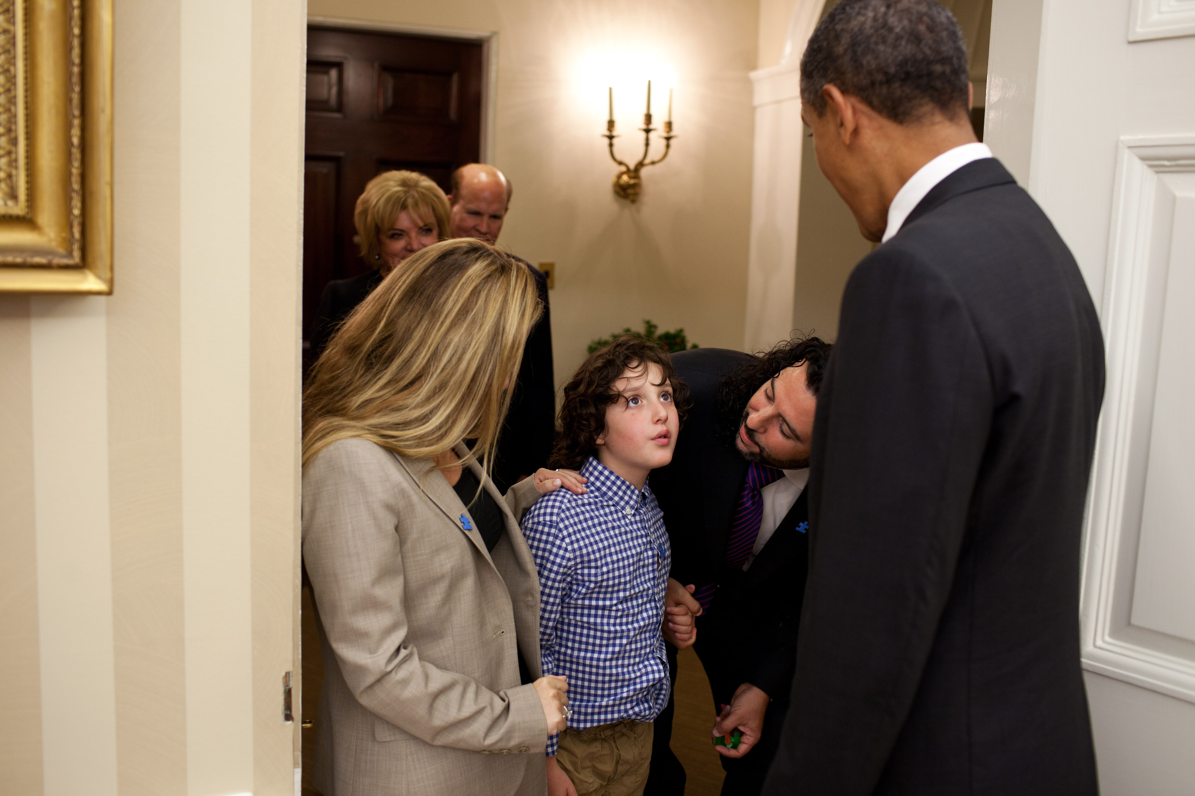 President Barack Obama greets Jasper Mann and his parents, Billy and Gena Mann, before signing H.R. 2005 - Combating Autism Reauthorization Act of 2011, in the Oval Office, Sept. 30, 2011. (Official White House Photo by Pete Souza)